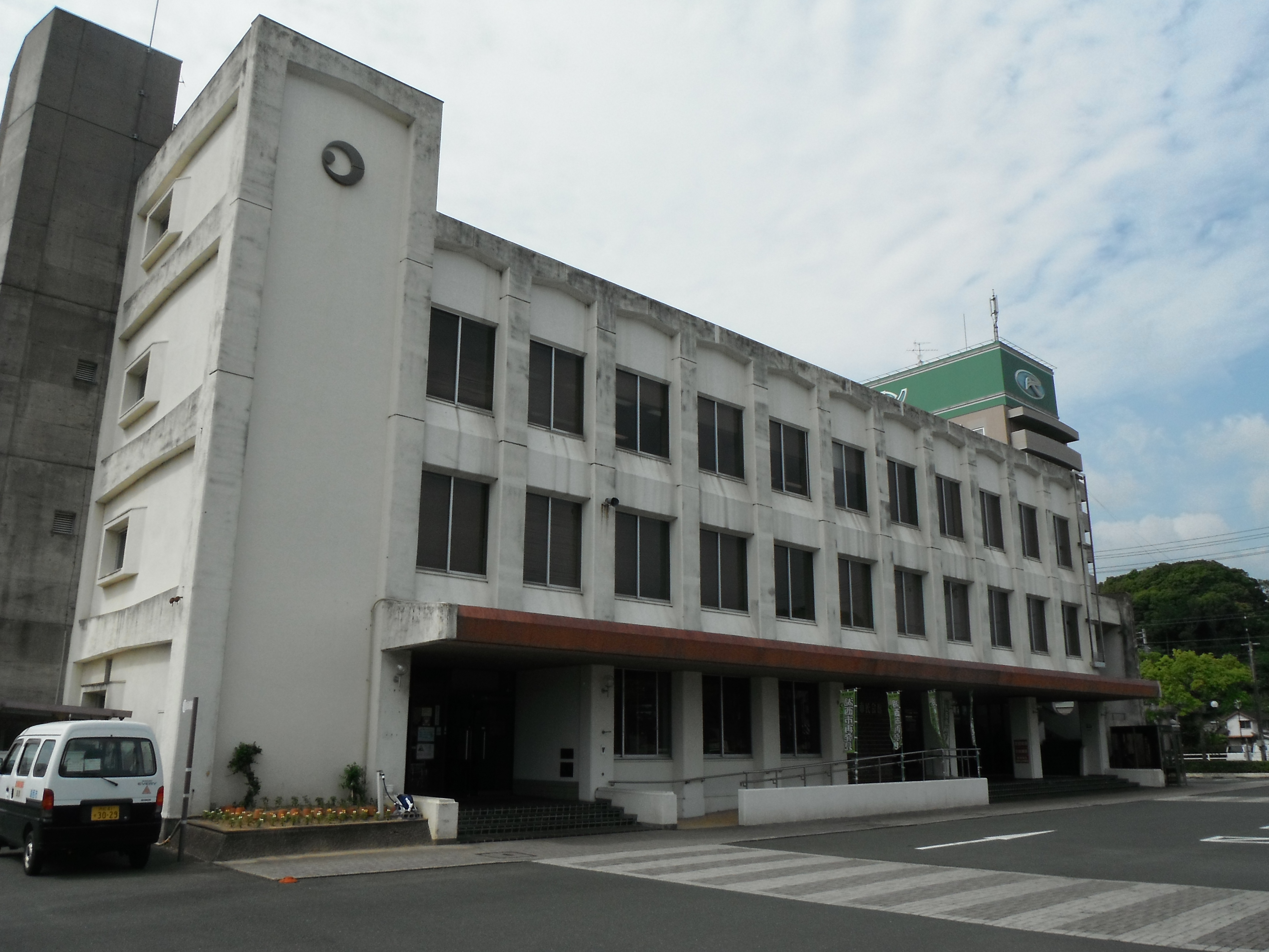 Kosai City Hall